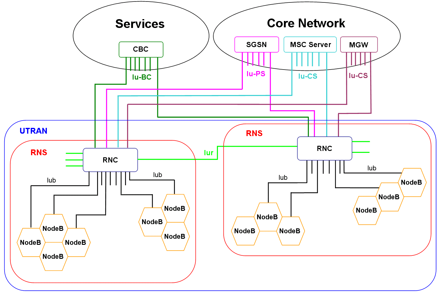 UMTS Network Architecture